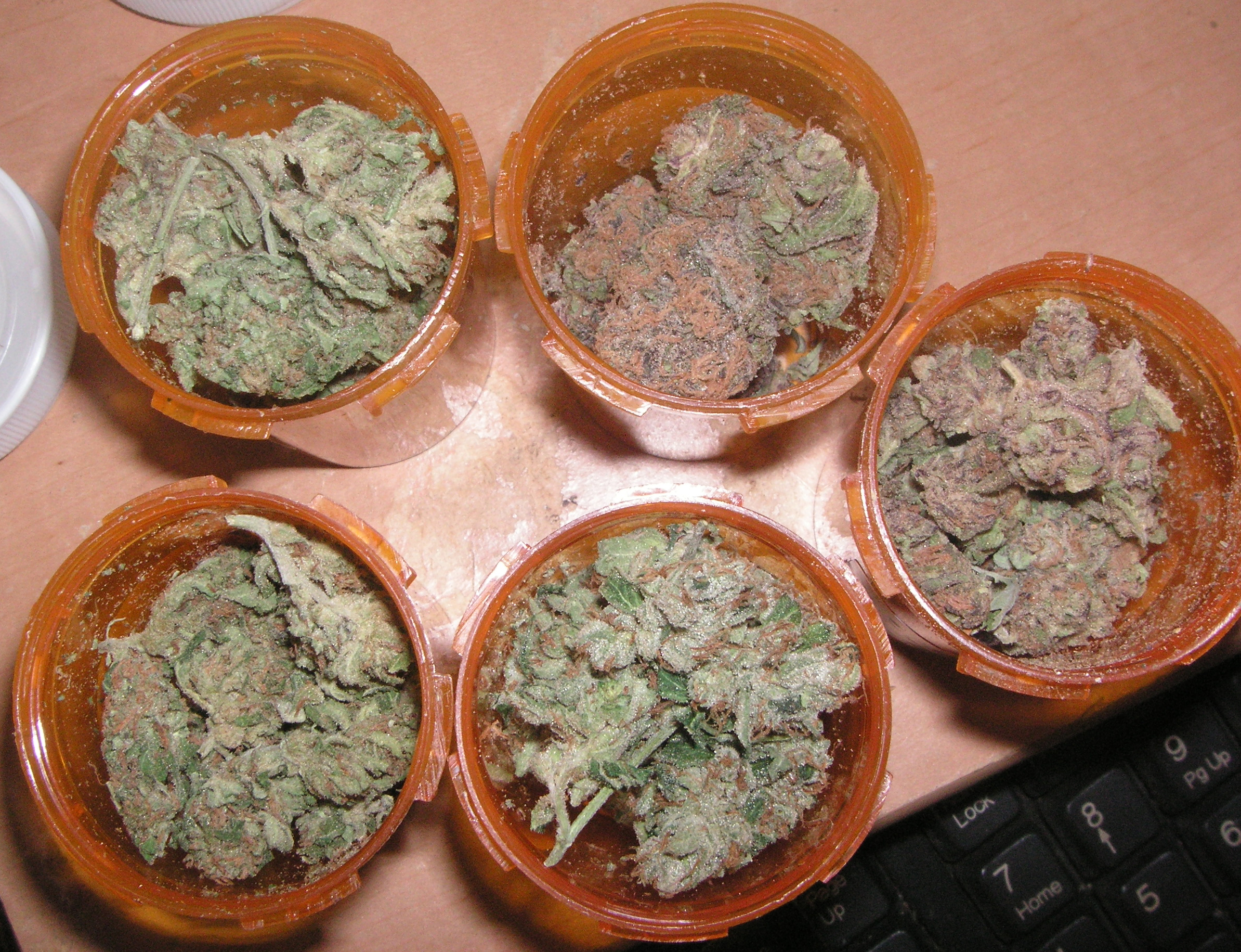 Four different strains to help ease pain, insomnia, and lack of hunger due to chemo therapy.